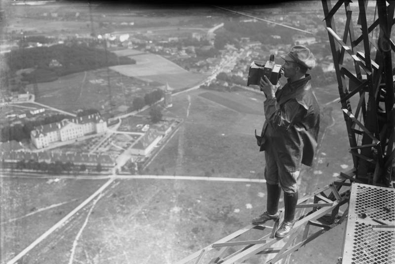 A daring press photographer! A press photographer stands on the outer edge of the 300m high "Deutschlandsender" antenna in Königswusterhausen to take a picture.